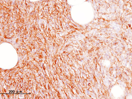 Histopathological image of dermatofibrosarcoma protuberans. Local recurrence long after the first excision. CD34 immunostain.